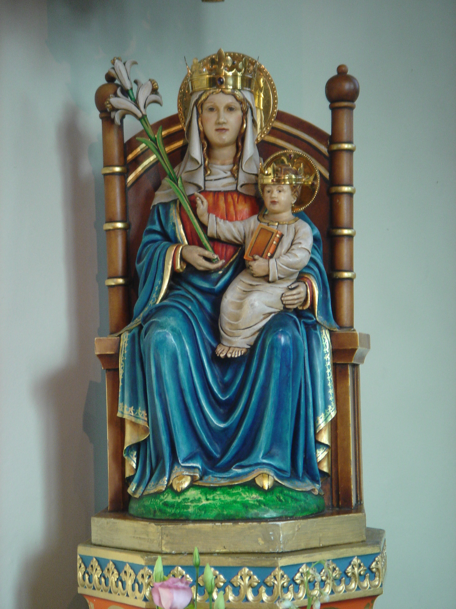 The statue of Our Lady of Walsingham, the Slipper Chapel, Walsingham, Norfolk, England.